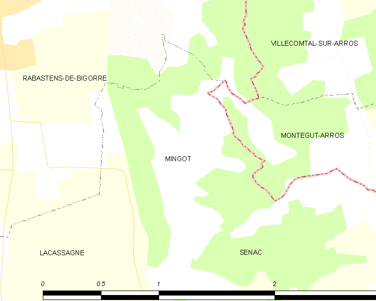 Map of French municipality